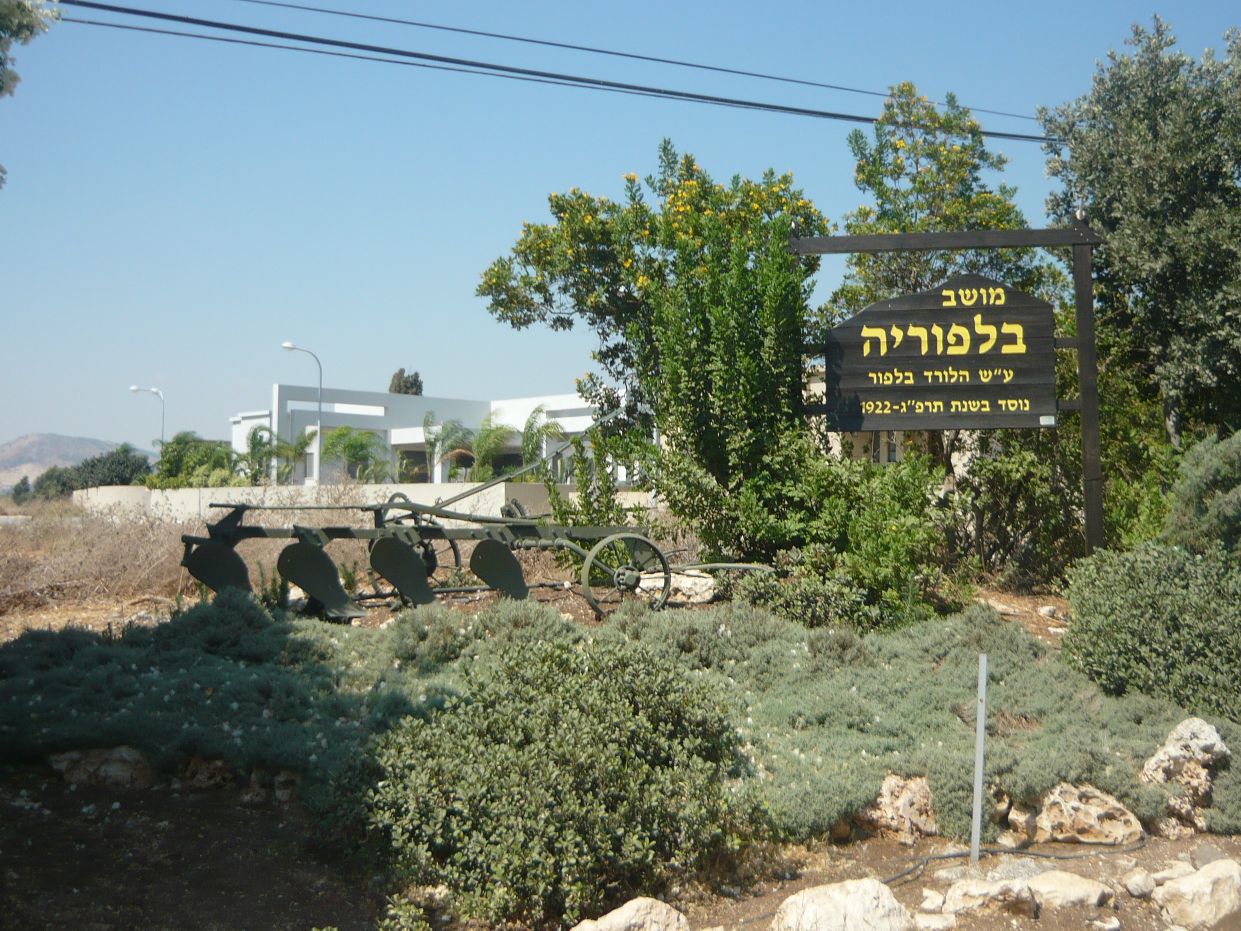 Balfouriya הכניסה לבלפוריה